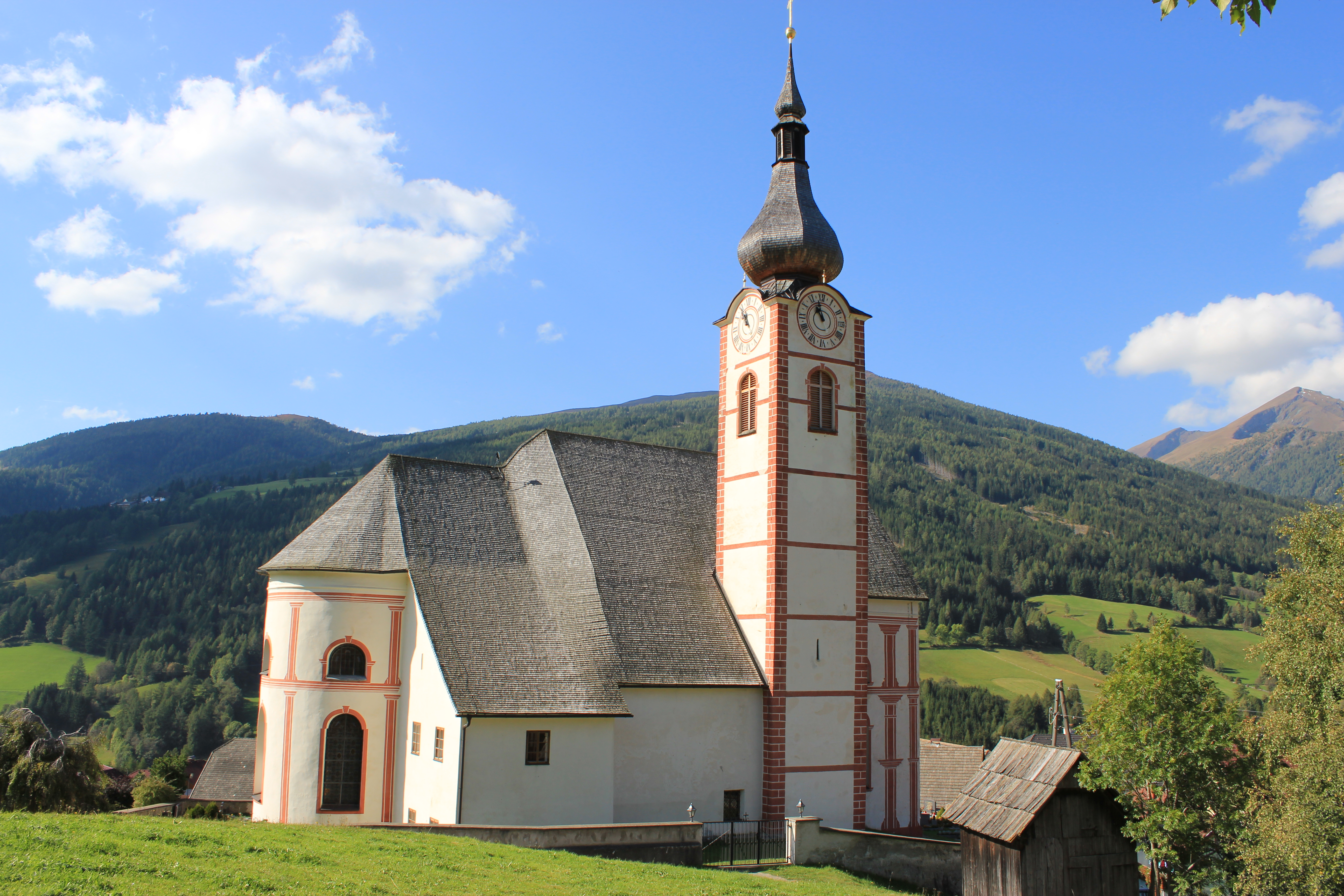 Church of Sankt Georgen im Katschtal in the community of Rennweg am Katschberg